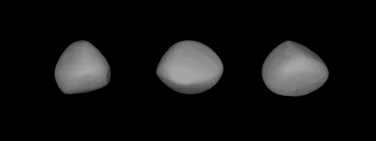 A three-dimensional model of 13 Egeria that was computed using light curve inversion techniques.